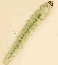 Stainton’s Natural History of the Tineina (1855–1873): Phyllonorycter stettinensis larva